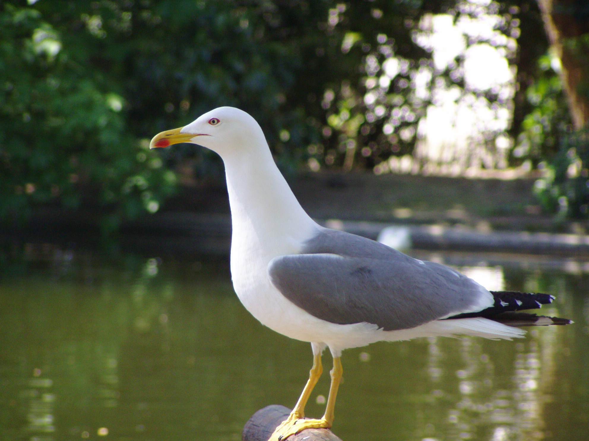 Adult Yellow-legged Gull Larus michahellis, summer plumage. Palácio de Cristal, Porto, Portugal.